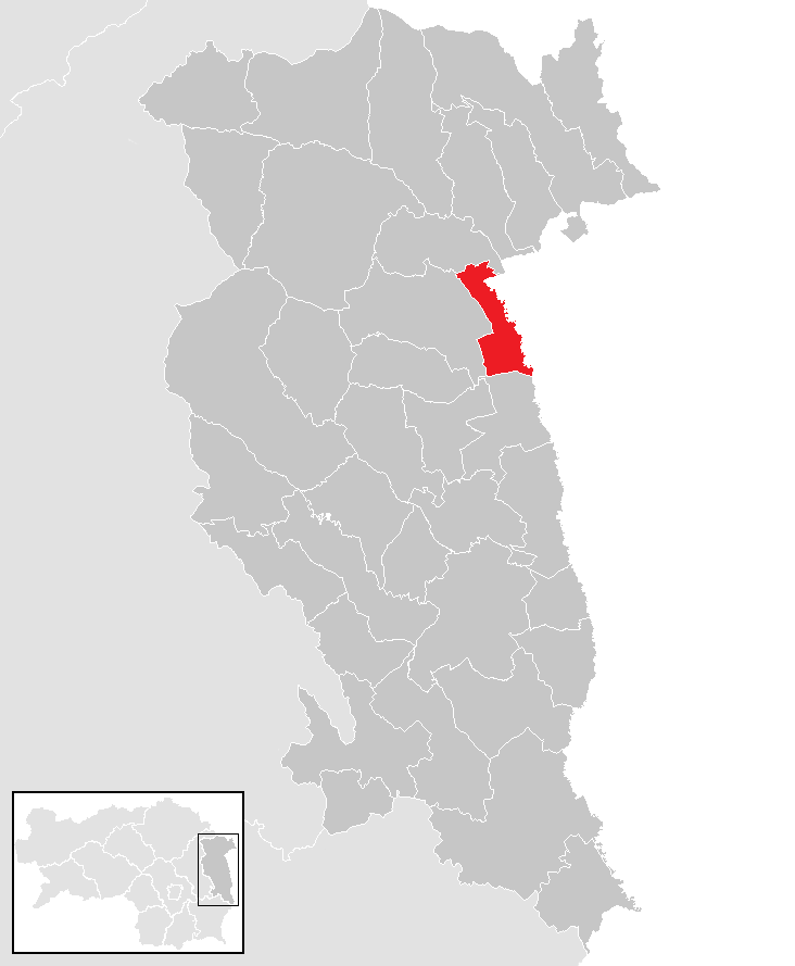 district Hartberg-Fürstenfeld